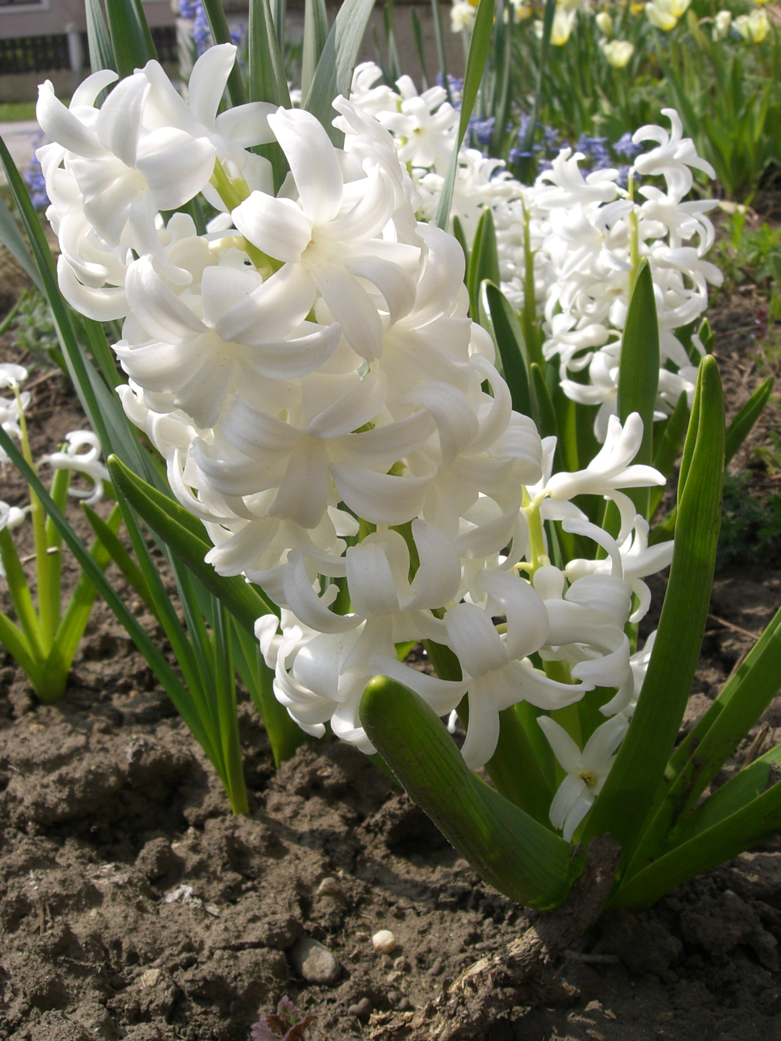 Hyacinthus orientalis